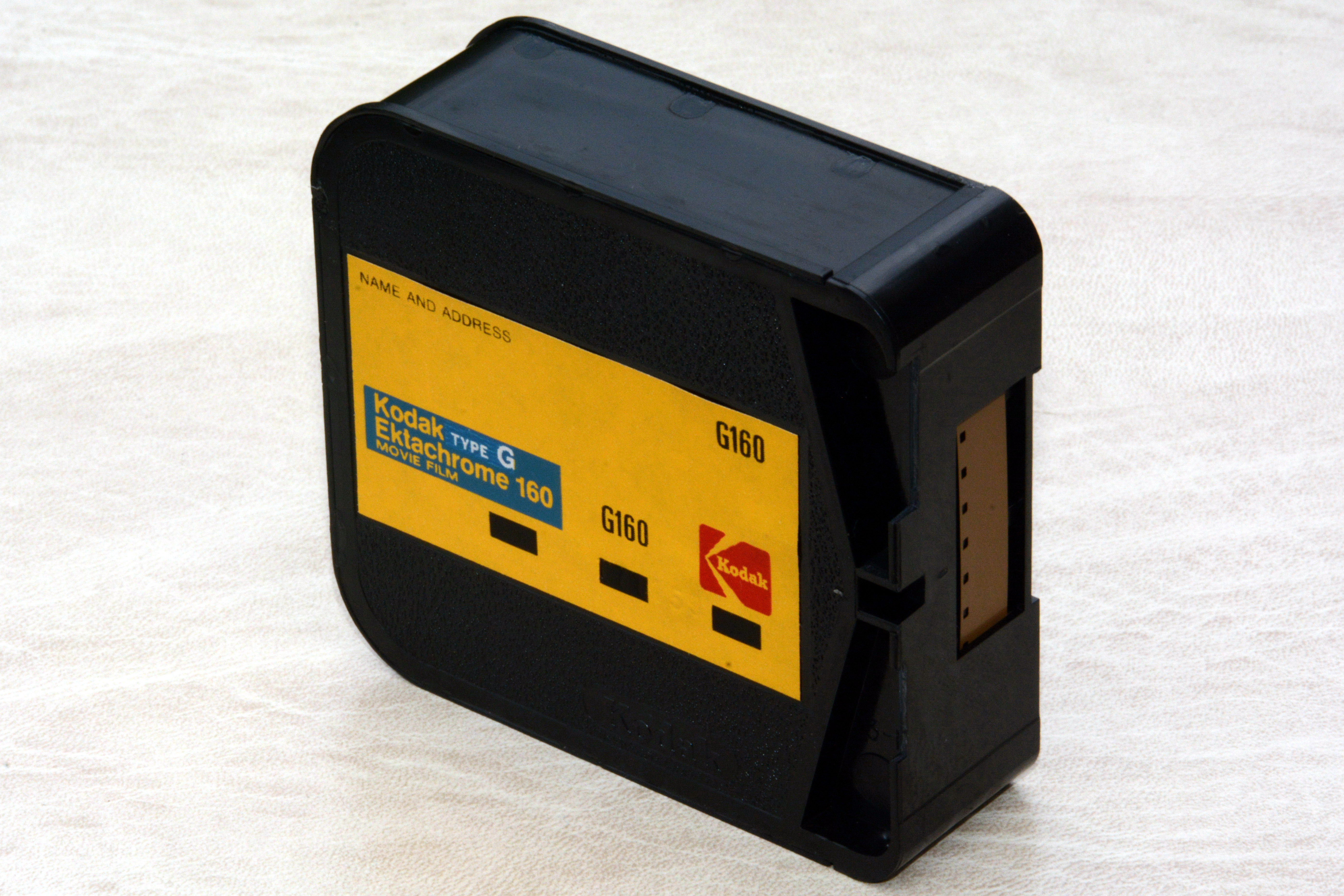 Kodak Ektachrome 160, Type G, Super 8 film cartridge